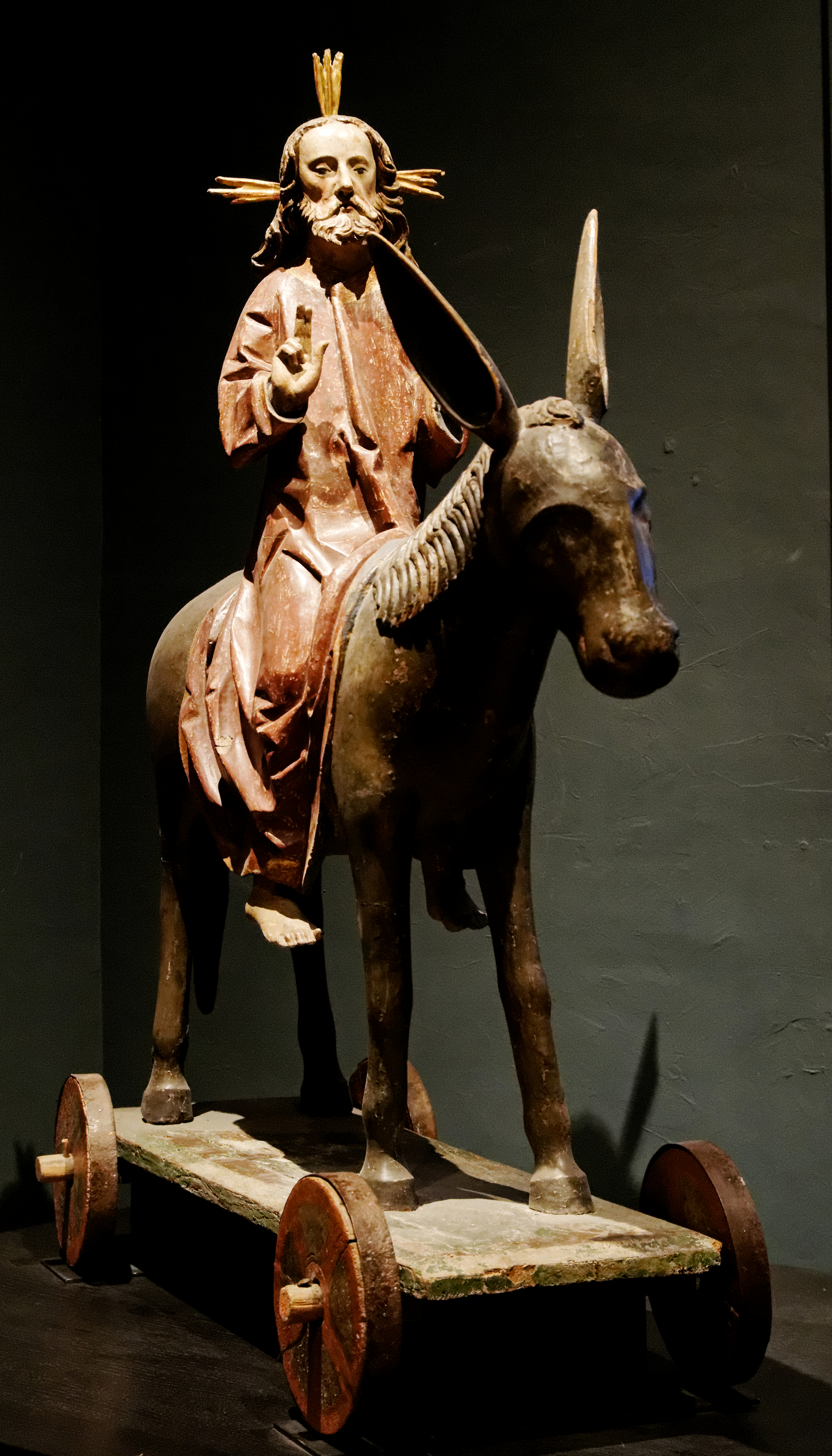 Palmesel (figure of Christ on a donkey, mounted on a wheeled platform). Art from Southern Germany, perhaps Swabia.